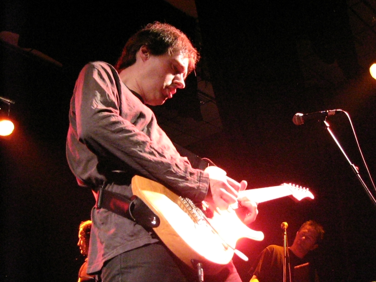 Threshold at the CRS Autumn Rokfest, 2007-11-03.